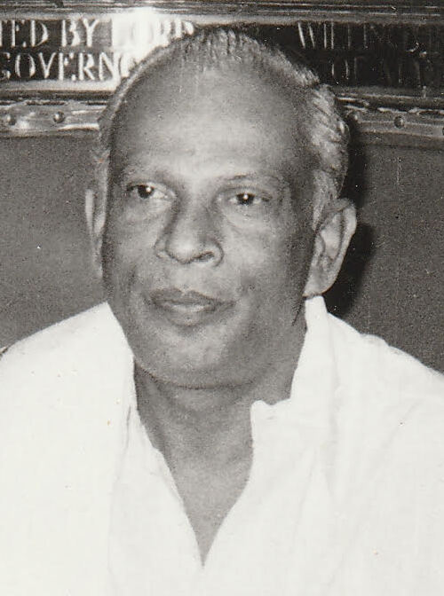 K. Rajaram